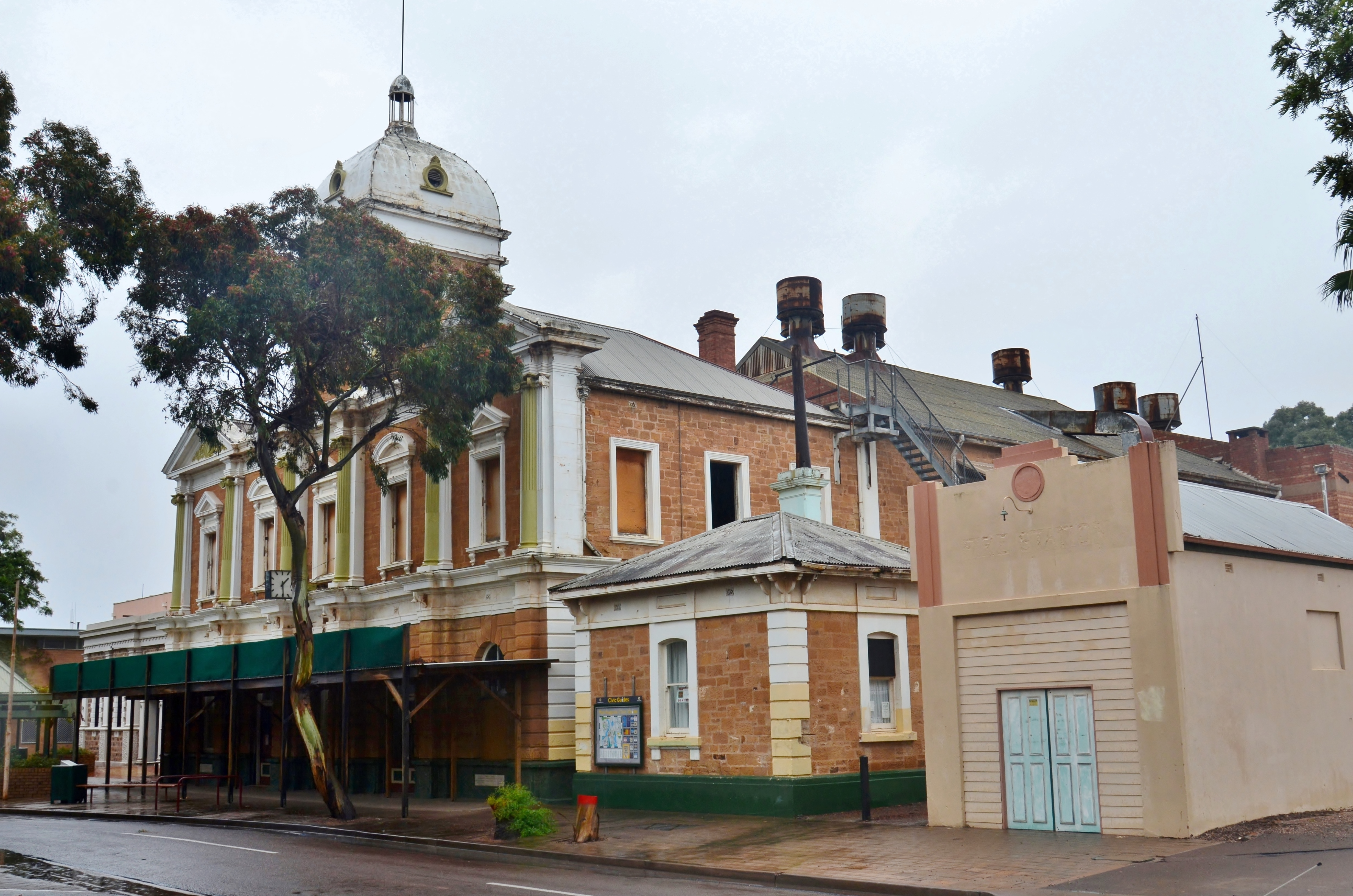 View of the sadly very derelict Port Augusta Town Hall, Commercial Road, Port Augusta South Australia